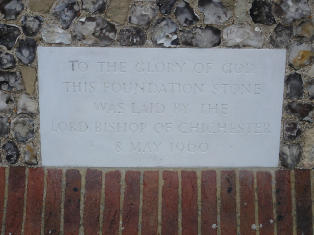 Foundation stone in the 1960 extension of St Peter's Church, West Blatchington, City of Brighton and Hove, England.